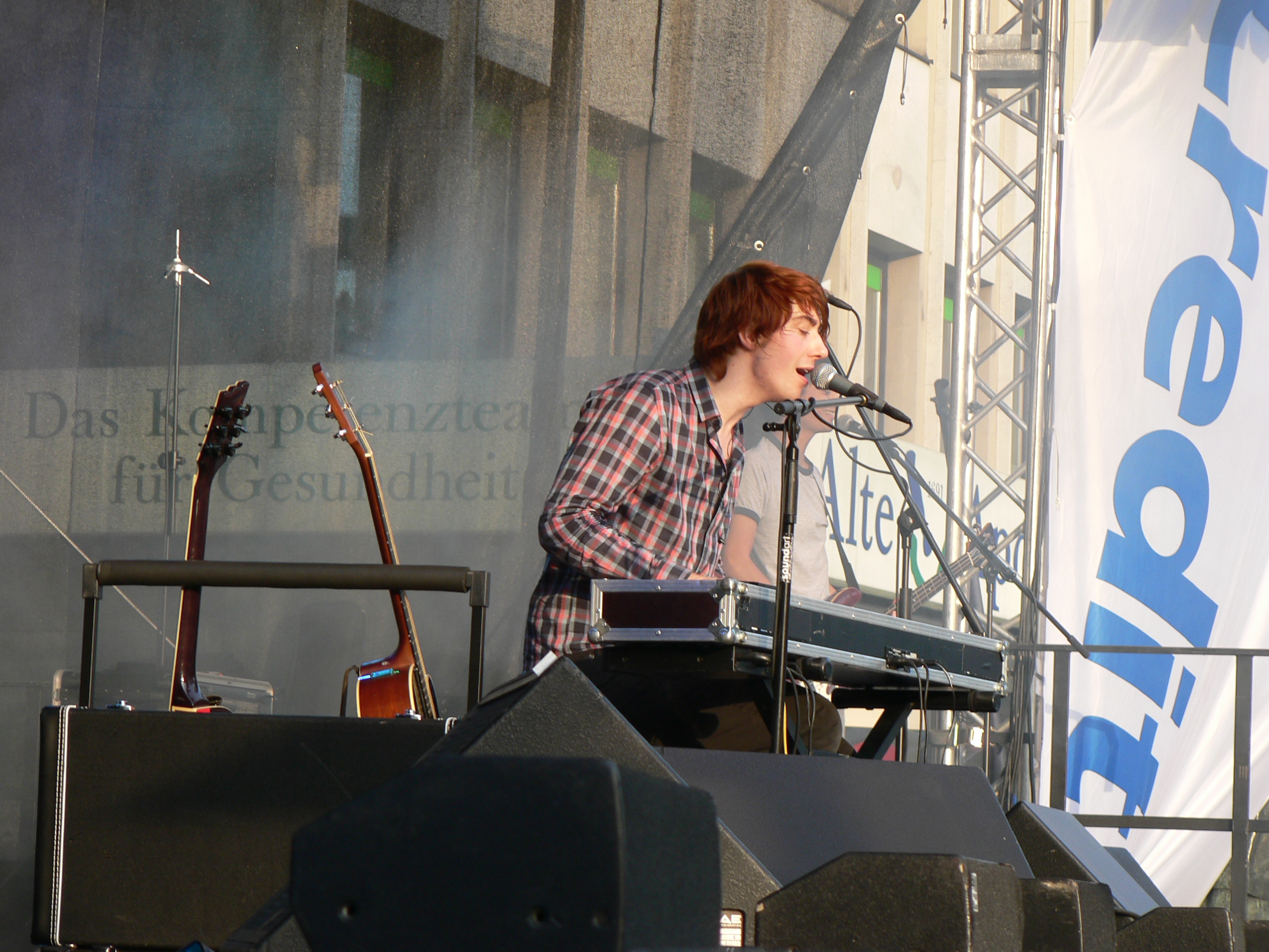 Tommy Finke on piano @ Bochumer Musiksommer 2009